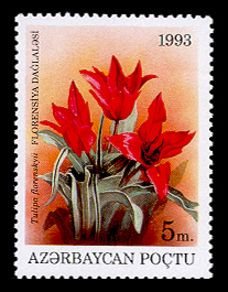 Stamp of Azerbaijan